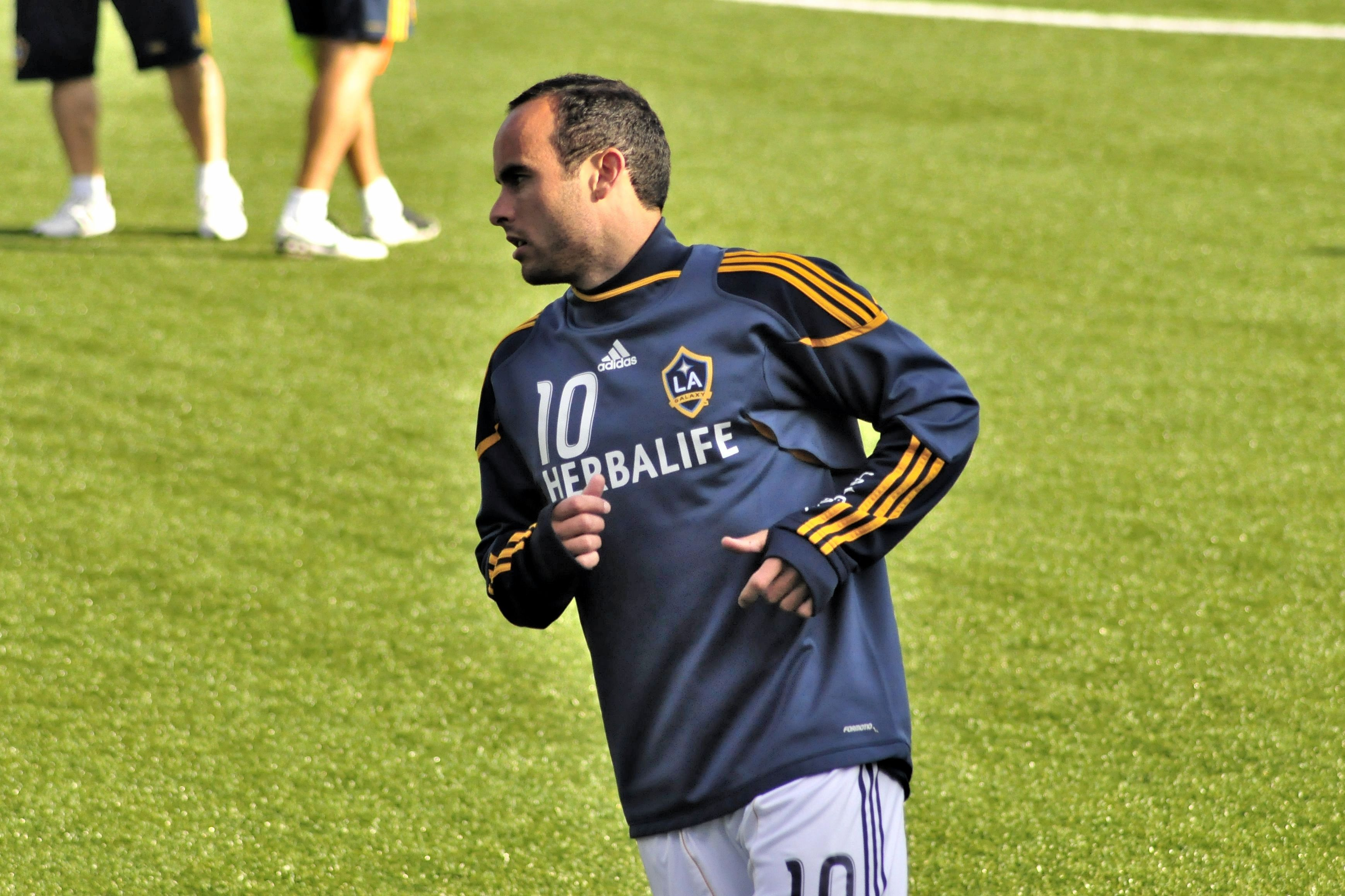 Landon Donovan of Los Angeles Galaxy.